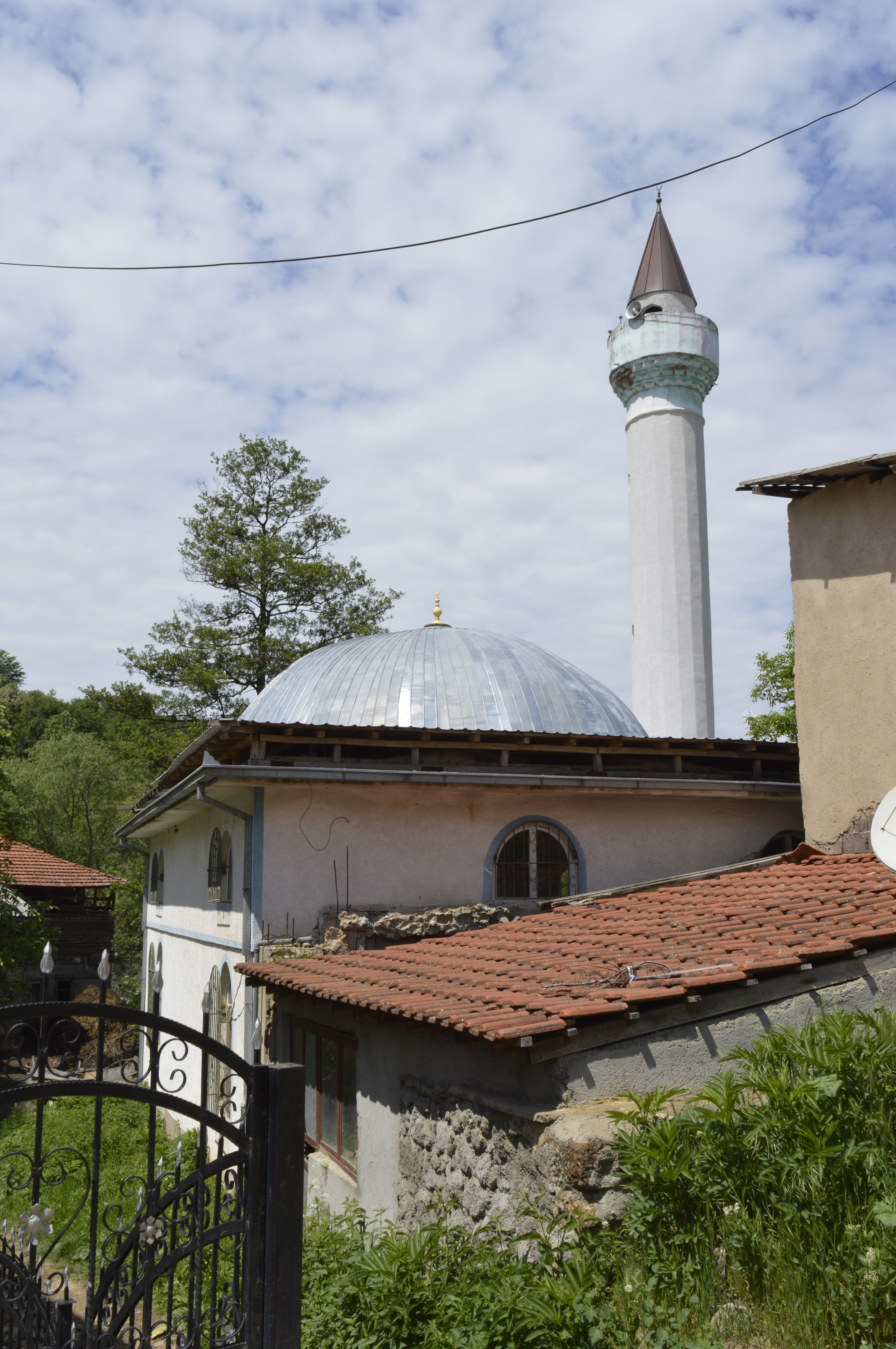 View of the local mosque in the village Crnik